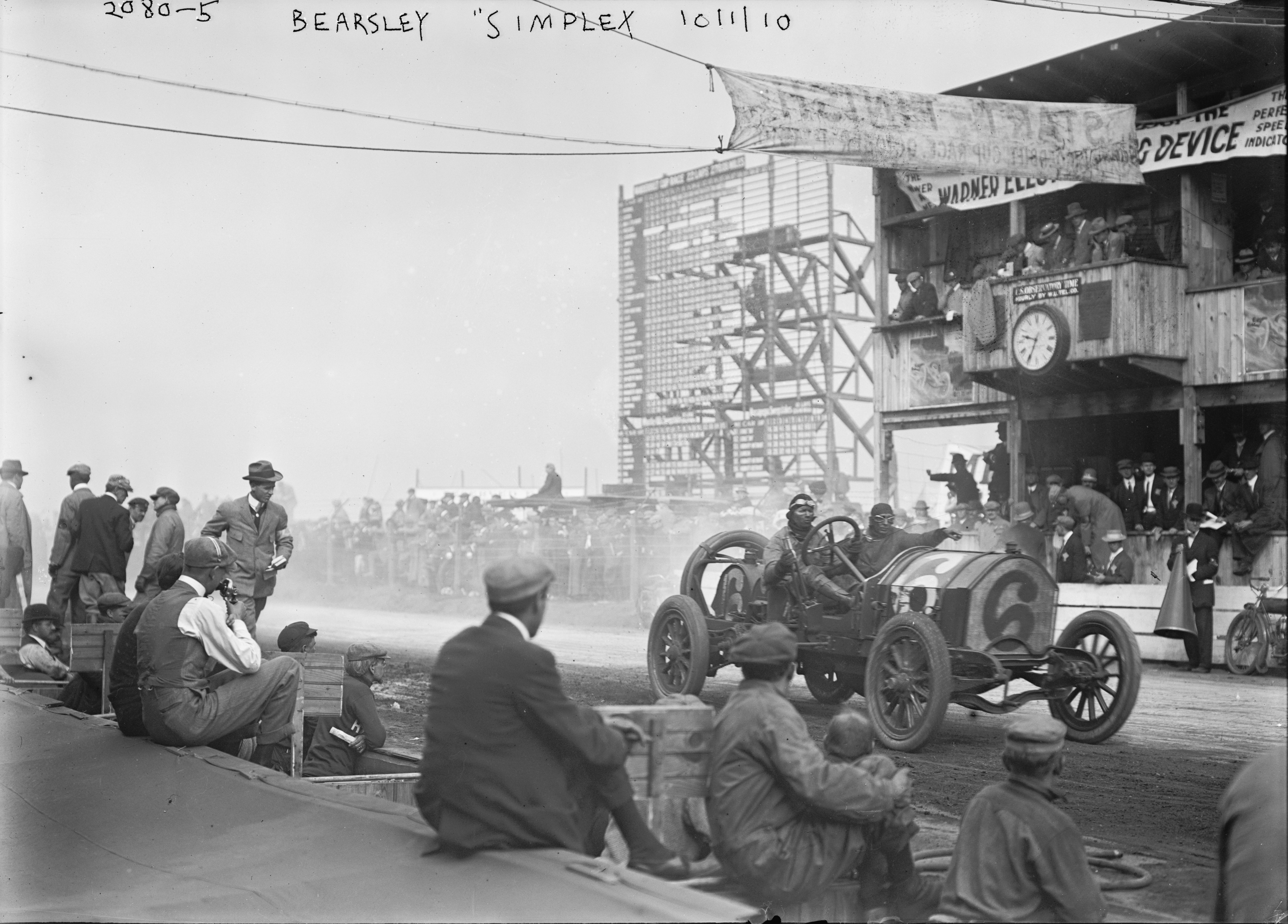 Ralph Beardsley, American racecar driver, in “Simplex”, Vanderbilt cup 1910